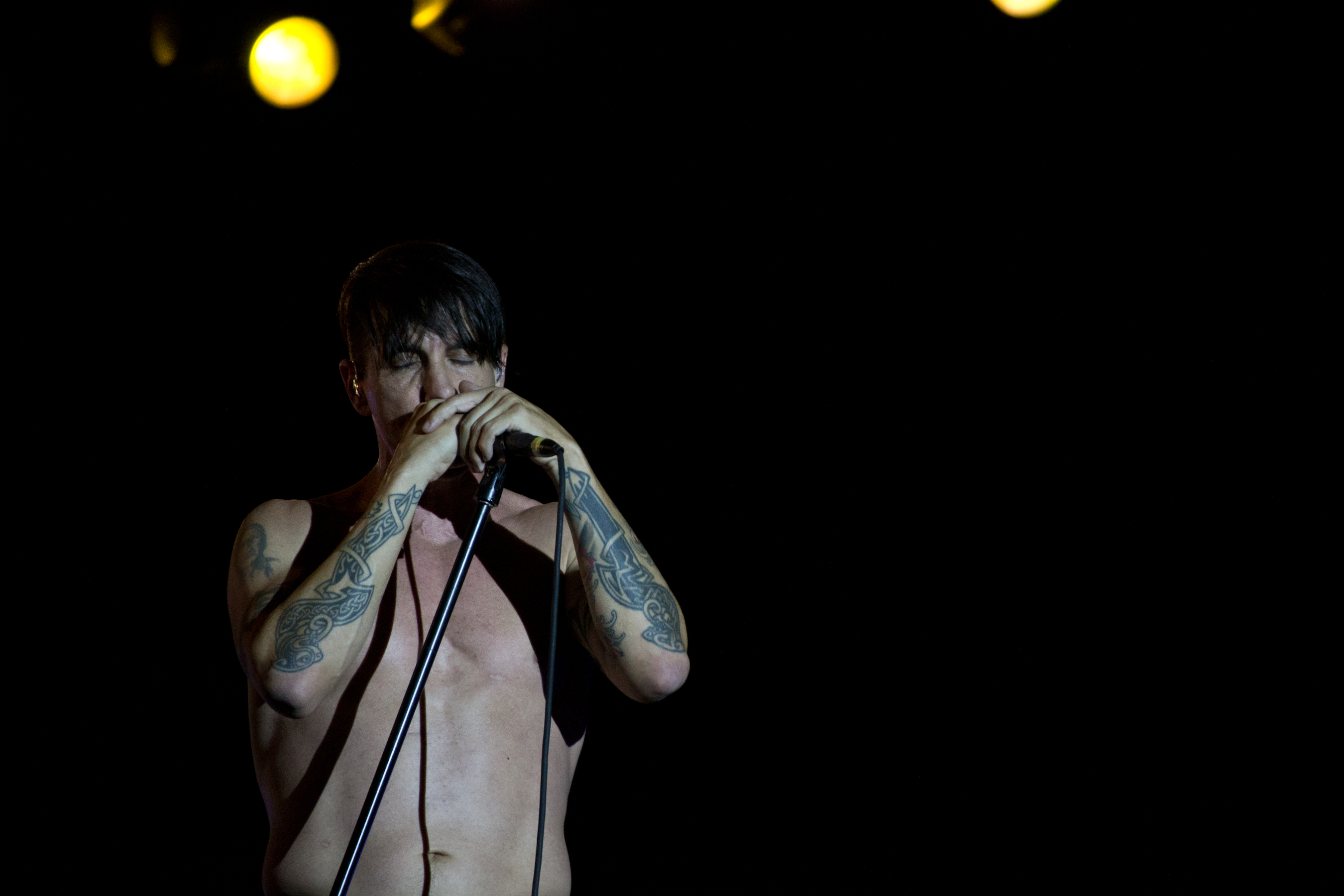 Red Hot Chili Peppers in Rock in Rio Madrid 2012.